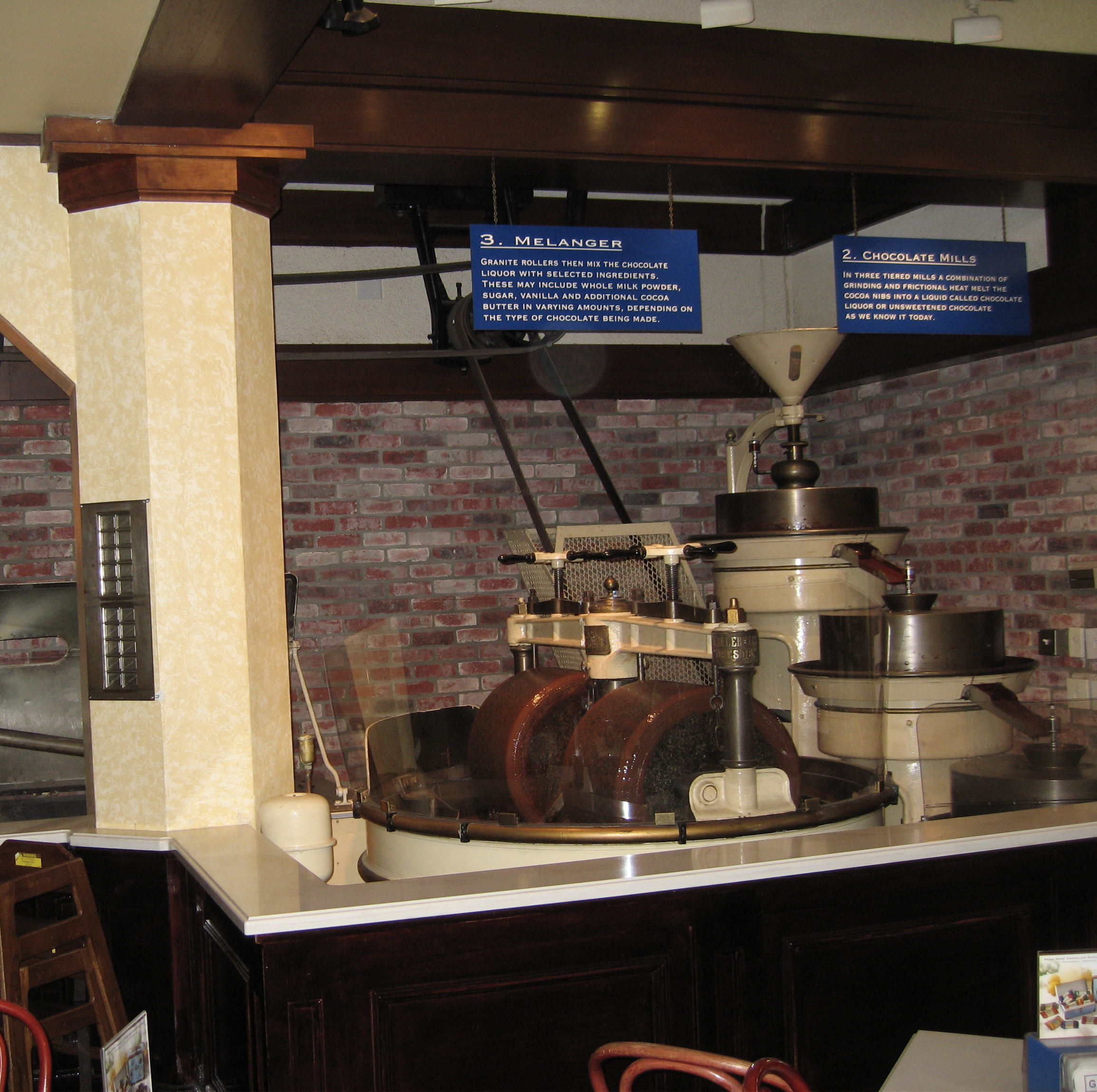 On the right, the cacao kernels are being melted into chocolate liquor; on the left, the liquor is being mixed with milk and the other ingredients that make it into chocolate.